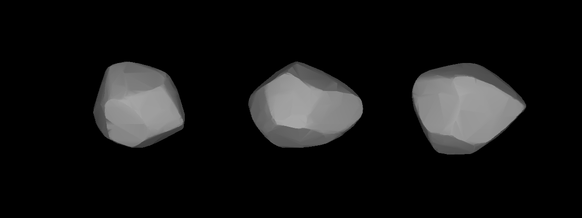 A three-dimensional model of 852 Wladilena that was computed using light curve inversion techniques.